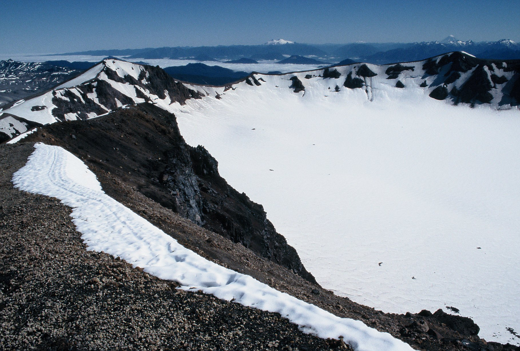 Caldera of Puyehue volcano in Chile